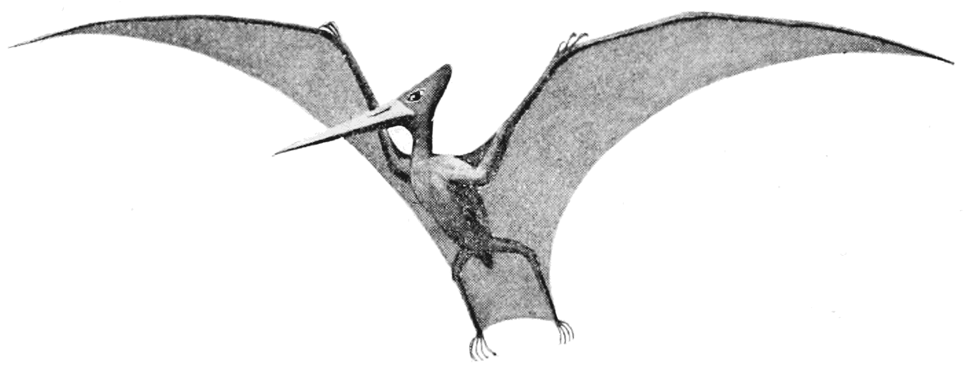 Restoration of pteranodon